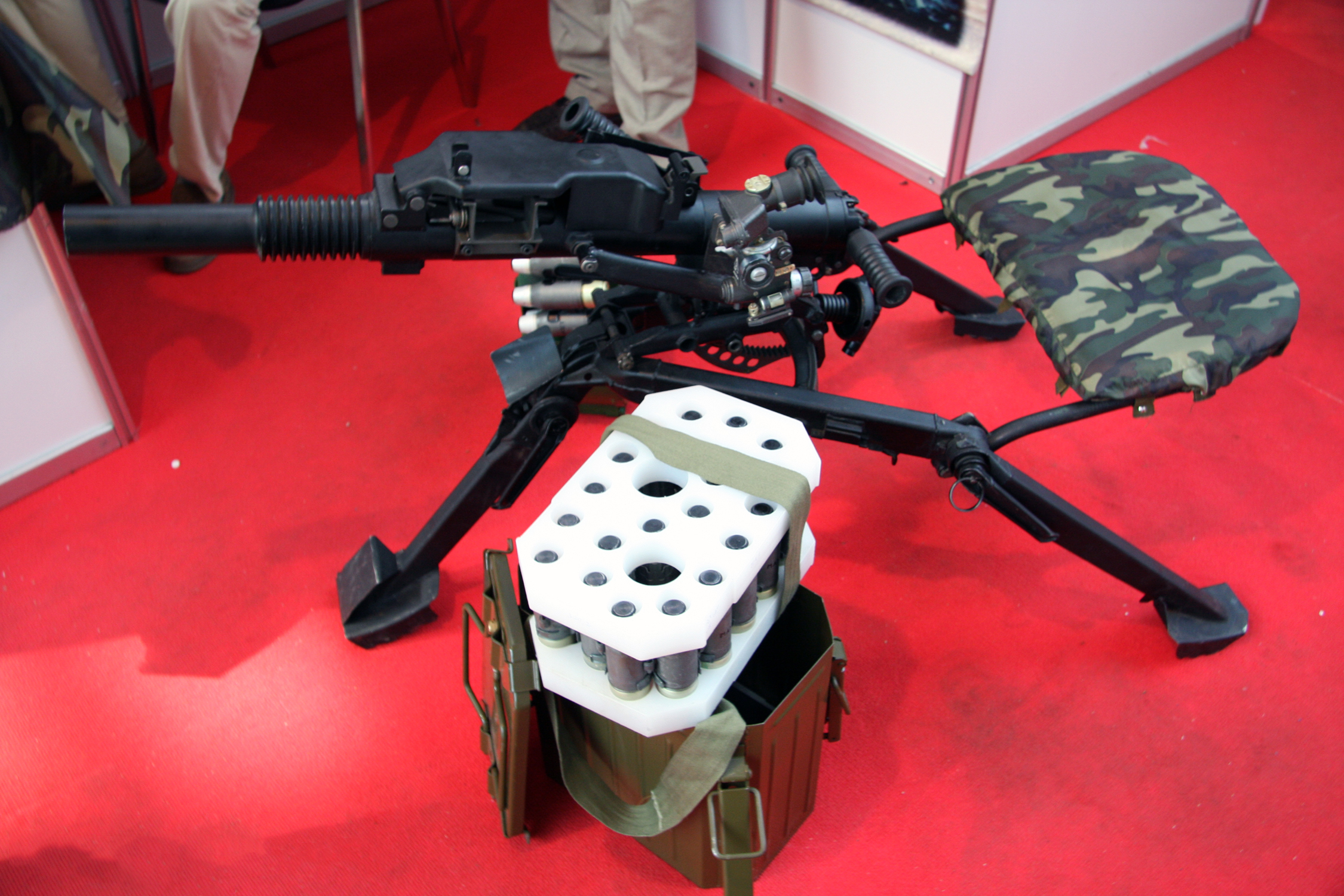 6G27 Balkan with grenades kit - IDELF-2008